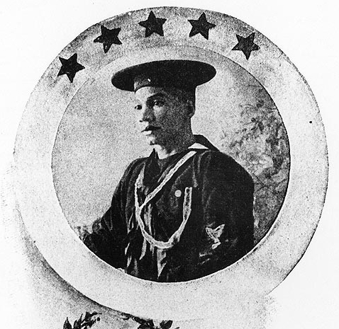 Robert Penn, Fireman Second Class, USN, who was awarded the Medal of Honor for heroism during a fireroom accident aboard USS Iowa (BB-4) on 20 July 1898, during the Spanish-American War. Copied from Deeds of Valor, Volume II, page 404, published in 1907 by the Perrien-Keydel Co., Detroit, Michigan.